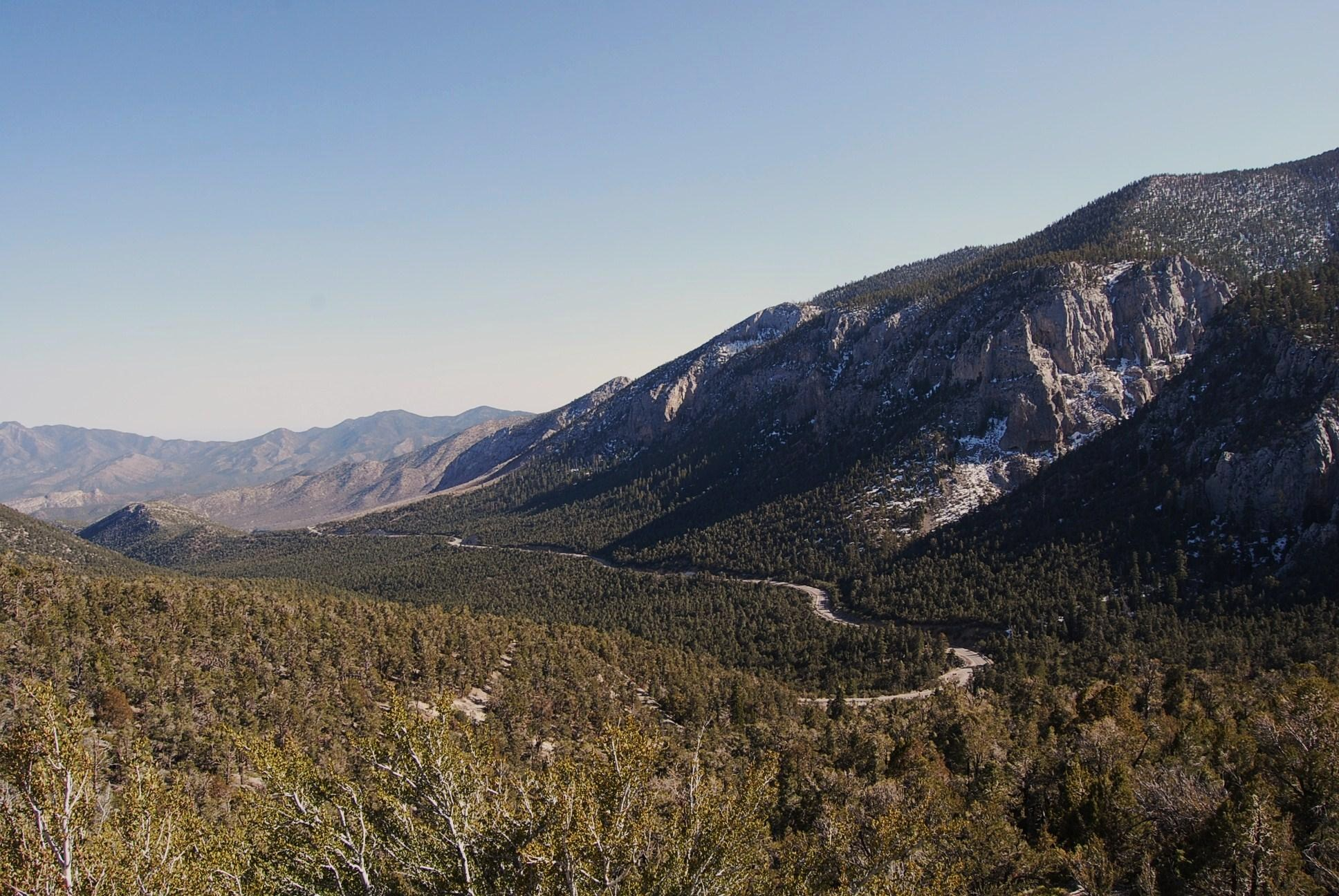 A portion of Nevada State Route 158 in the Spring Mountains.